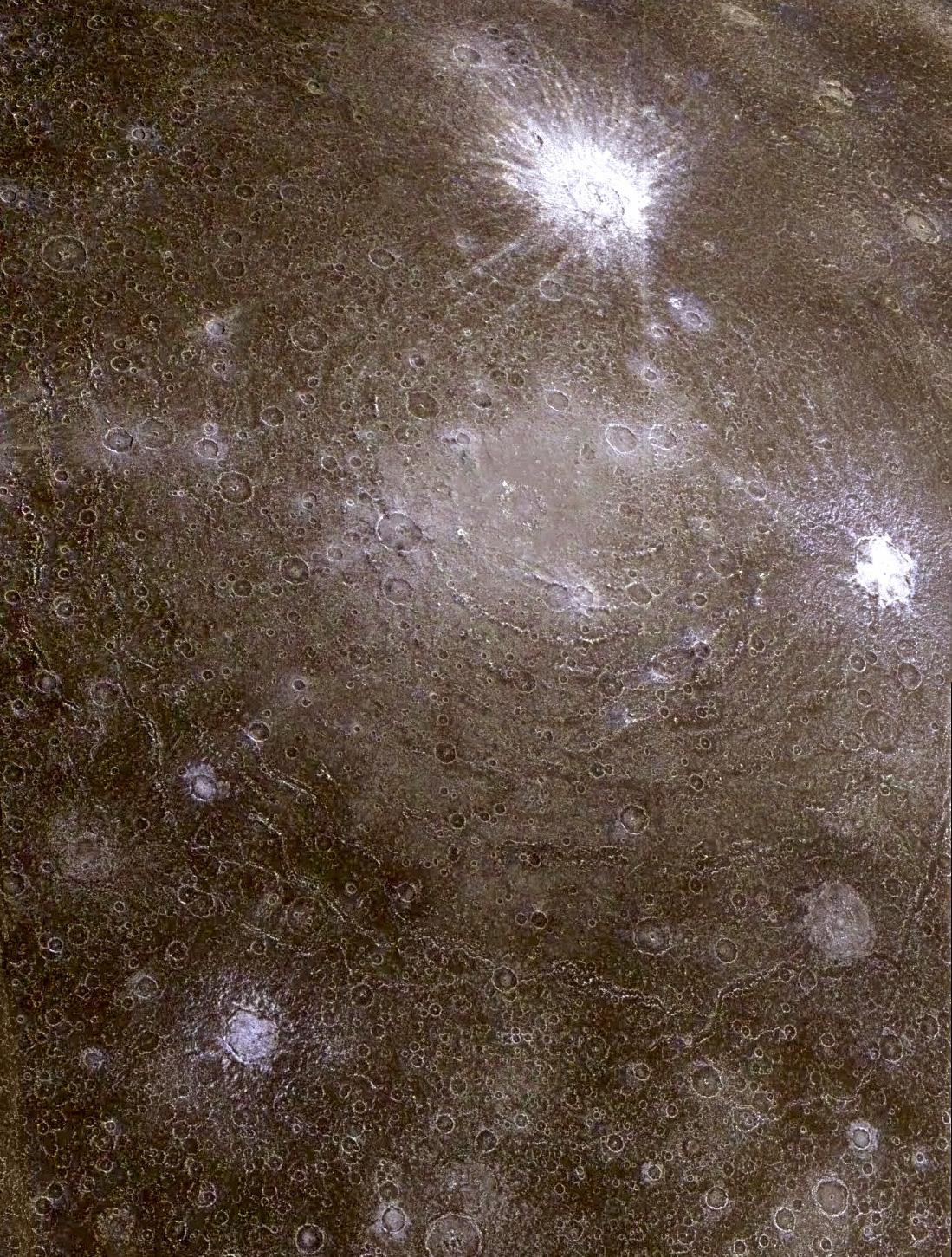 Impact craters on Callisto, second largest moon of Jupiter, as imaged by Galileo spacecraft in 1997. Asgard crater in the middle, surrounded by rings extemdimg outwars in a diameter of 1,700 km. Newer impacts have dug up ice, which comprises Callisto's outer crust. Original caption Low-resolution color data were combined with a higher resolution mosaic to produce this infrared composite image of a pair of ancient multi-ringed impact basins on Jupiter's moon, Callisto. The region imaged is on the leading hemisphere of Callisto near 26 degrees north, 142 degrees west, and is almost 1,400 kilometers (860 miles) across. North is toward the top of the picture and the Sun illuminates the surface from the east. Dominating the scene is the impact structure, Asgard, centered on the smooth, bright region near the middle of the picture and surrounded by concentric rings up to 1,700 kilometers (about 1,050 miles) in diameter. A second ringed structure with a diameter of about 500 kilometers (310 miles) can be seen to the north of Asgard, partially obscured by the more recent, bright-rayed crater, Burr. The icy materials excavated by the younger craters contrast sharply with the darker and redder coatings on older surfaces of Callisto. Launched in October 1989, Galileo entered orbit around Jupiter on Dec. 7, 1995. The spacecraft's mission is to conduct detailed studies of the giant planet, its largest moons and the Jovian magnetic environment. The Jet Propulsion Laboratory, Pasadena, CA, manages the mission for NASA's Office of Space Science, Washington, DC.